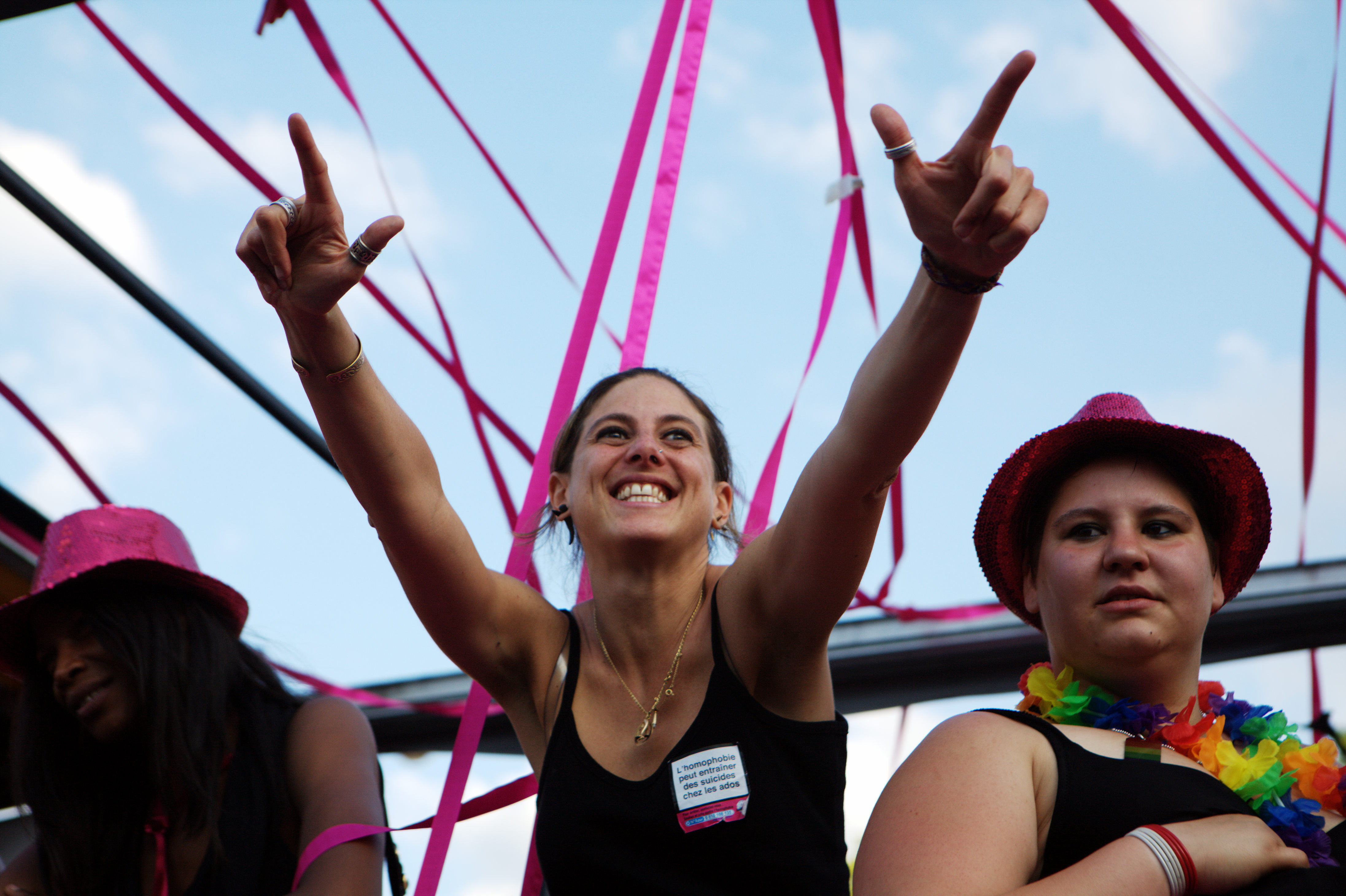 Scenes of the Gay Pride of 27 June 2009 at the Place de la Bastille in Paris.